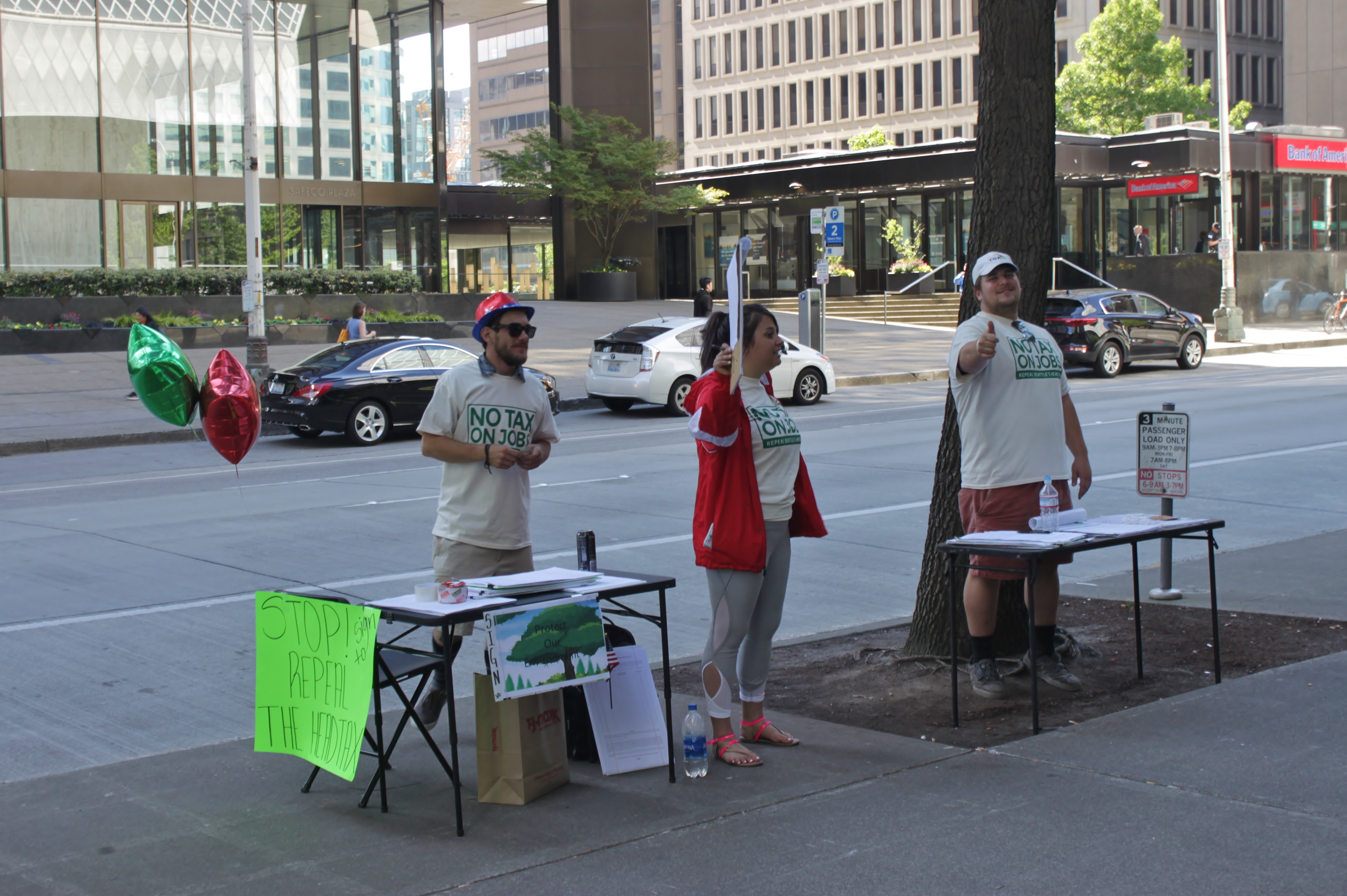 Signature gatherers for the "No Tax on Jobs" campaign (opposing the Seattle head tax) outside the Seattle Central Library in the early days of the campaign.